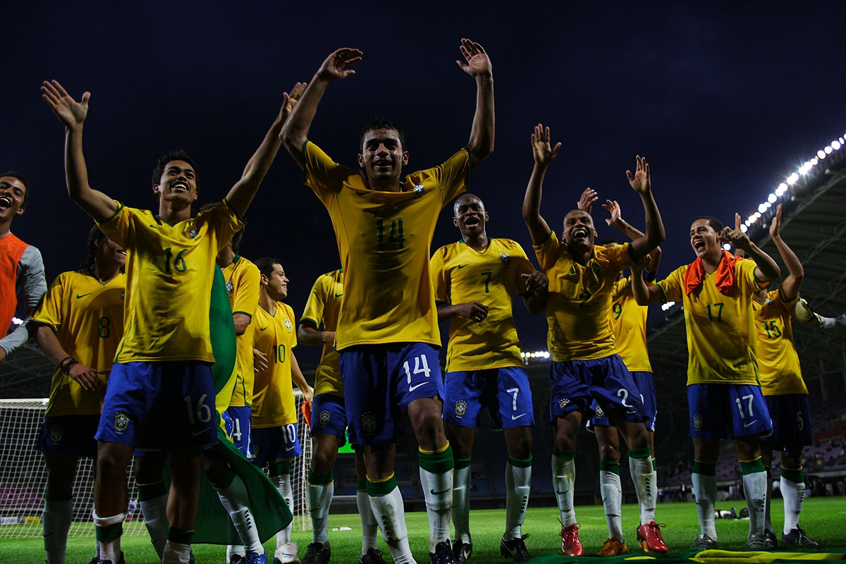 SEPTEMBER 15, 2008 - Football : Brazilian players celebrate thier victory after the Sendai Cup International Youth Football Tournament 2008 between U19 Brazil and U19 France at Yurtec Stadium Sendai on September in Miyagi, Japan. (Photo by Tsutomu Takasu)